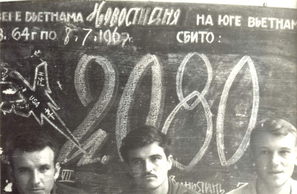 Kill-count board, bearing the current number of U.S. aircraft downed over the South and North Vietnam combined as of July 8, 1967 since August 1964 (when U.S. air raids began). Left to right are the Soviet officers with the NVA's 43rd division, E. A. Ershov, target tracking radar commanding officer, Sr. Lieut. V. I. Savchenko, receiver-transmitter technician, Sr. Lieut. V. N. Sadchikov. On the left side of the board is a hand drawing of spinning U.S. Navy F4H fighter-bomber, and hand-written number "2080 [aircraft downed]" at the center.